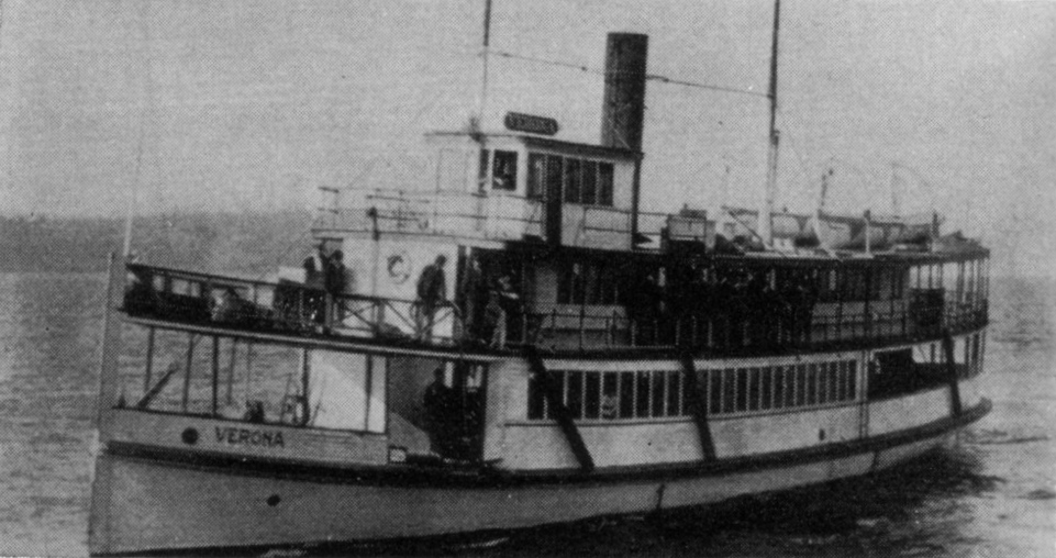 Steamboat Verona, somewhere on Puget Sound.